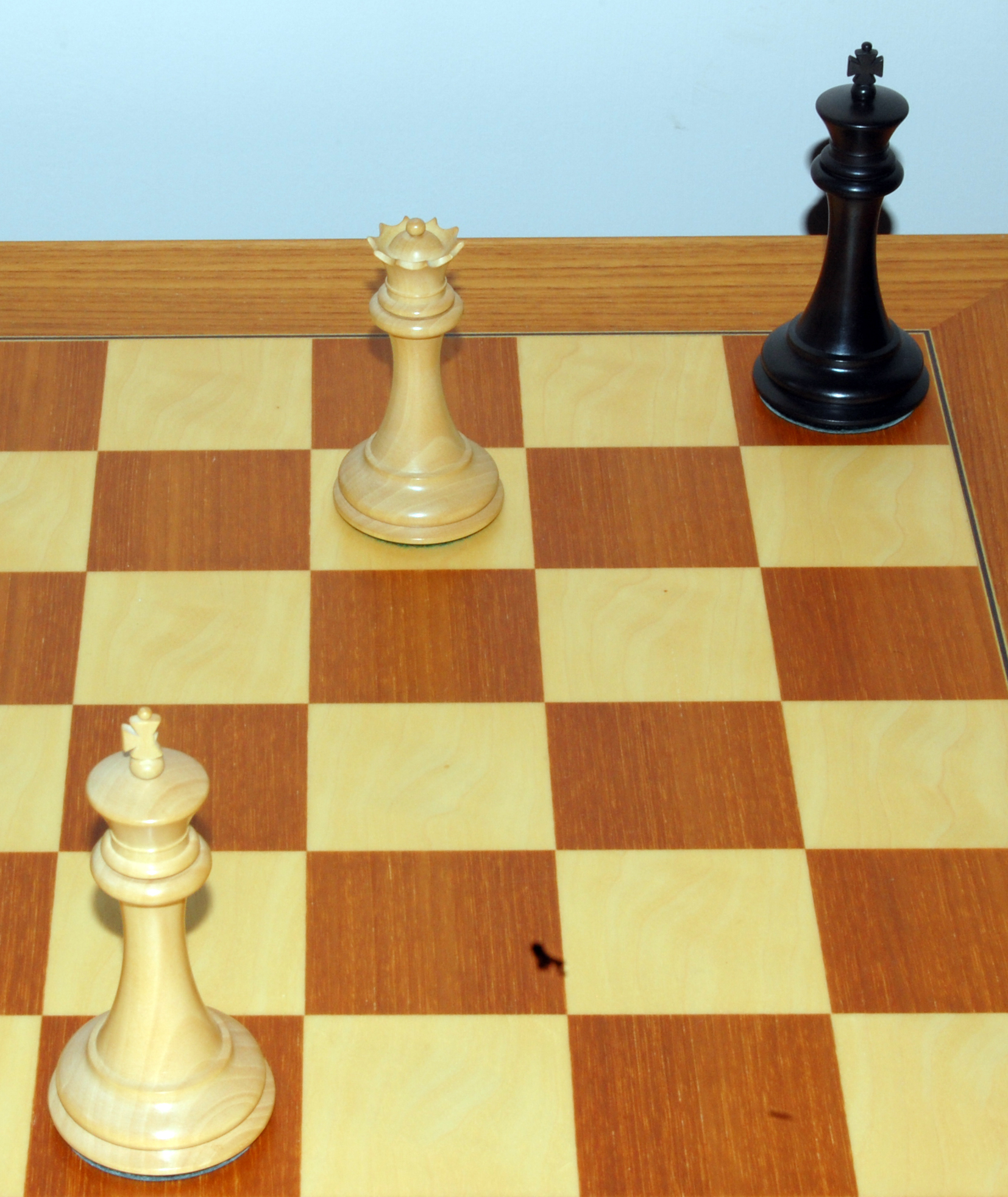 photo of a stalemate position